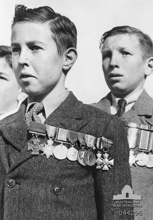 Maurice Smith (at left), the son of Australian Victoria Cross winner Issy Smith, wearing his father's medals. This photo was probably taken during a patriotic parade in 1945.